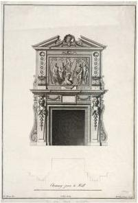 Plate 26, Chimneypiece to Hall, Houghton Hall, Norfolk The Plans, Elevations and Sections, Chimney-pieces and Cielings [sic] of Houghton in Norfolk, 1735 V&A Museum no. 13095 Techniques - Etching and engraving, ink on paper Artist/designer - Isaac Ware, born before 1704 - died 06/01/1766 (draughtsmen and publisher), William Kent, born before 1685 - died 12/04/1748 (designer), Paul Fourdrinier, born 1720 - died 1758 (print-maker) Place - London, England (published) Dimensions - Height 39.5 cm (paper), Width 26.6 cm (paper) Object Type - This print by Paul Fourdrinier combines two printmaking techniques - etching and engraving. Both involved creating a pattern of grooves to hold ink in a metal printing plate. The image on the printing plate was the reverse of the final image. The etched lines were made using acid, while the engraved lines were scored by means of a sharp tool called a burin. The grooves were then filled with ink and the image was transferred onto a blank sheet of paper. Place - Houghton Hall is a magnificent country house in Norfolk. It was built by Sir Robert Walpole, the Prime Minister, in the 1720s and early 1730s. The bust on the mantelpiece is a portrait of Walpole. Subjects Depicted - What appears to be a painting over the mantelpiece is in fact a sculpted relief depicting a Sacrifice to Diana. Diana was the classical goddess of hunting, recognisable by the crescent moon on her head. Use - Isaac Ware's book on Houghton Hall was published only a few years after the house was finished. It was a forerunner of the magazines available today, featuring the homes of the rich and famous.